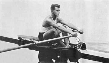 Ted Bull